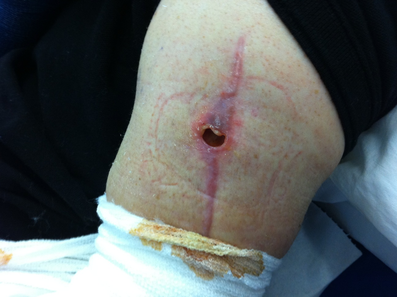 Abscess following traumatic injury to the humerus